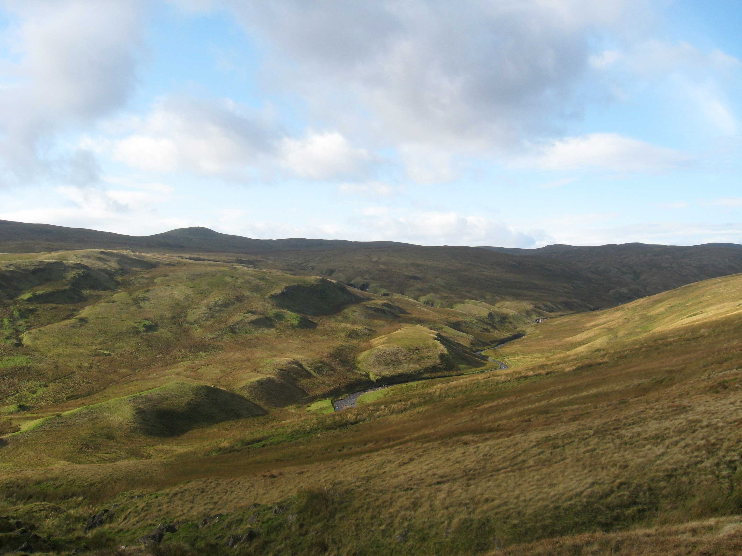 River Garnock from Burnt Hill, upriver from Glen Garnock, with Black Law hill to the left.